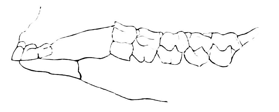 Teeth of kangaroo